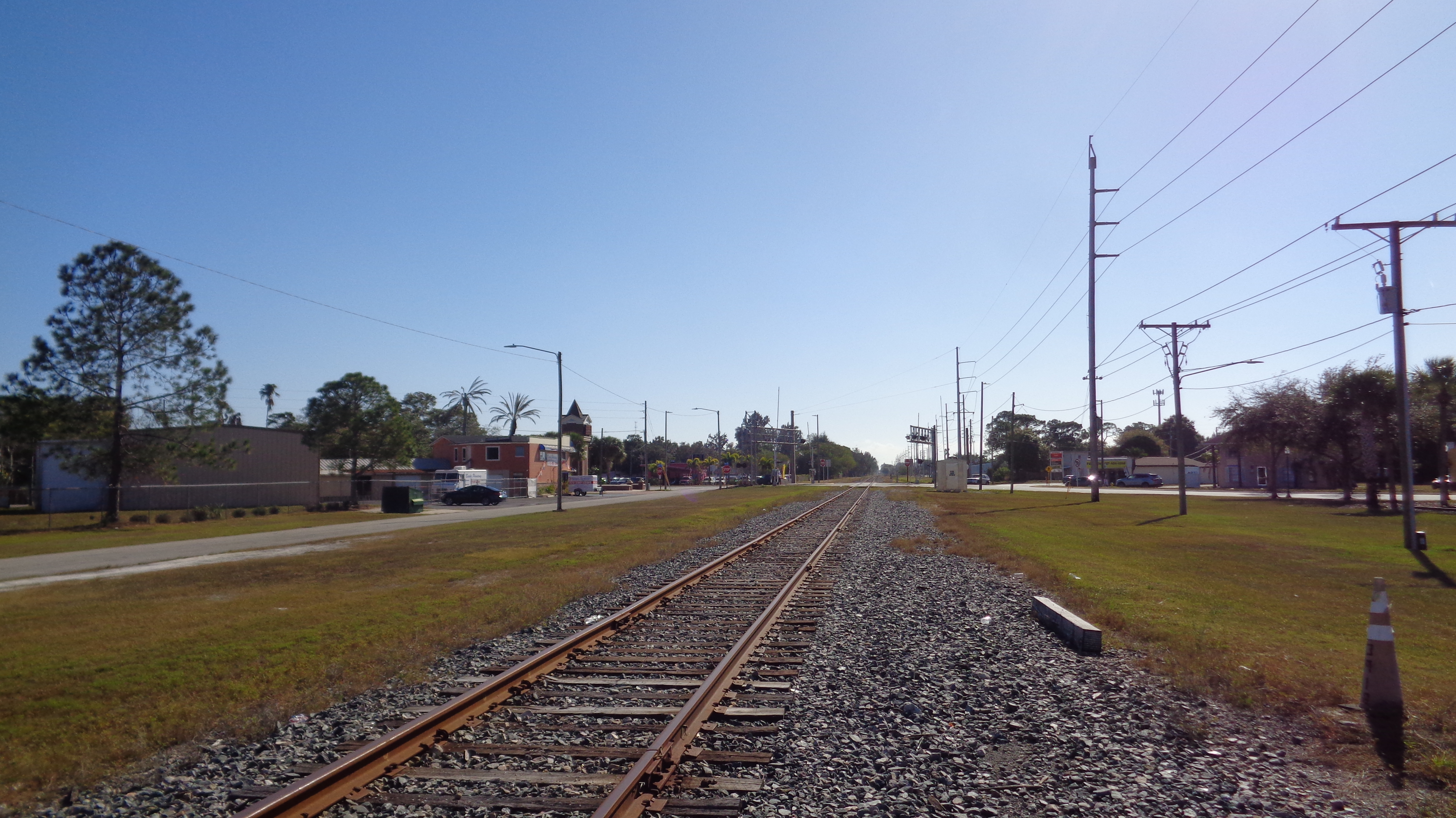 CSX Clearwater Subdivision in Pinellas Park, Florida looking south towards Park Boulevard.